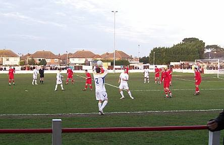 A.F.C. Wimbledon vs Ramsgate F.C. on 22 December 2007